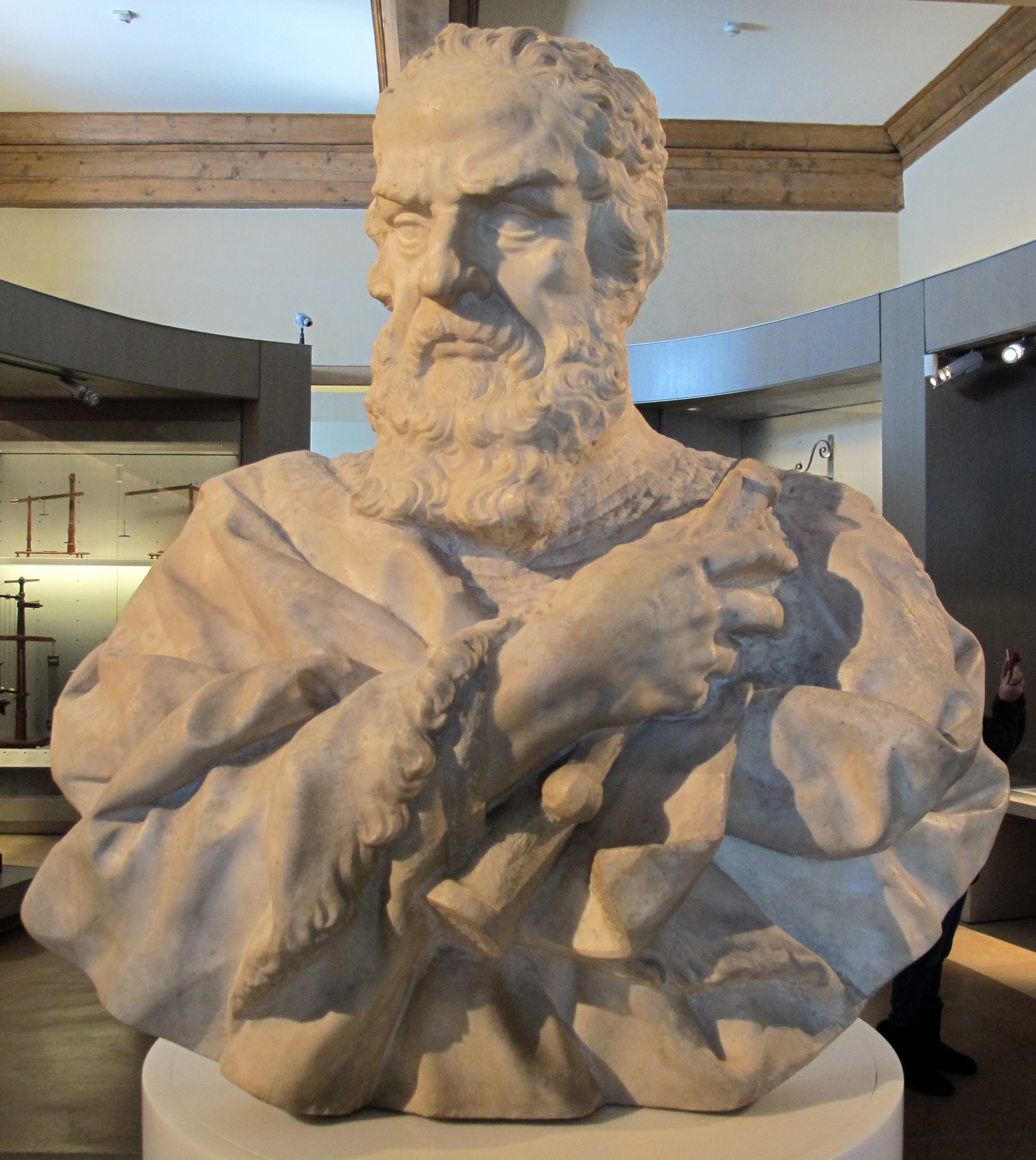 Bust of Galileo Galilei.